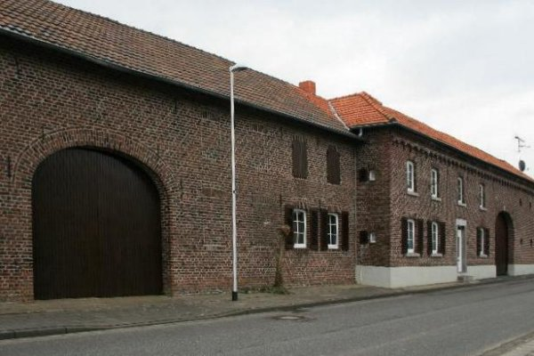 Cultural heritage monument No. 51 in Gangelt